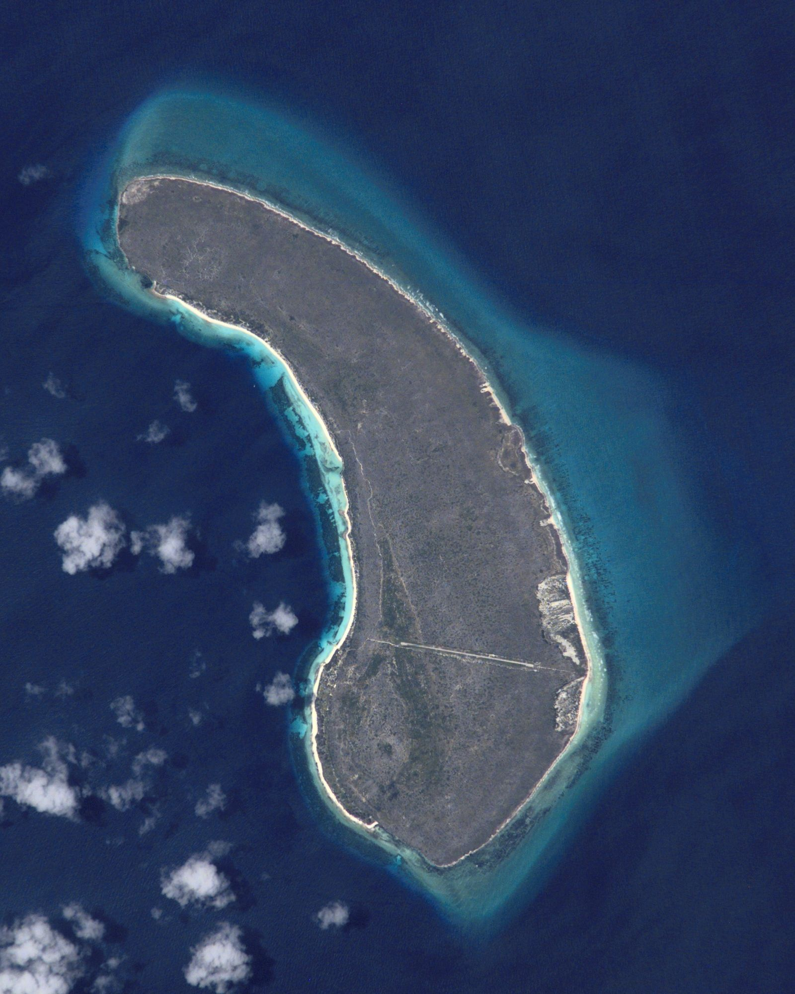 NASA astronaut image of Assumption Island (belonging to Aldabra-Group, Outer Islands, Seychelles) in the Indian Ocean. Note: this image is rotated 45 degrees anticlockwise, according to the North direction which points to the upper left corner of this image.